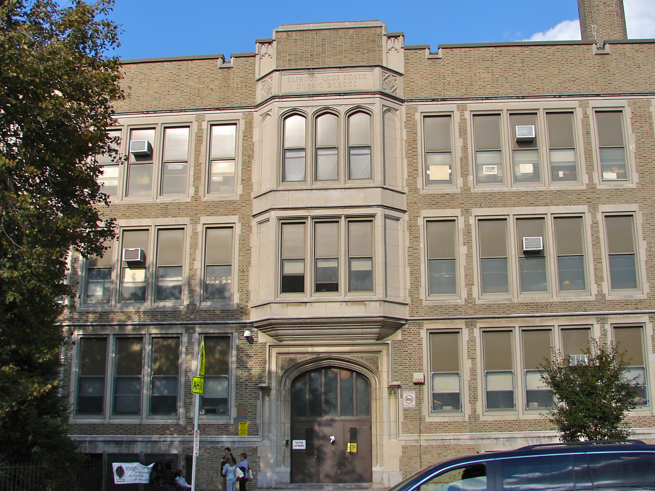 Eleanor Cope Emlen School of Practice in Philadelphia, on the NRHP since November 18, 1988. At 6501 Chew Avenue in the Mount Airy neighborhood of NW Philly.